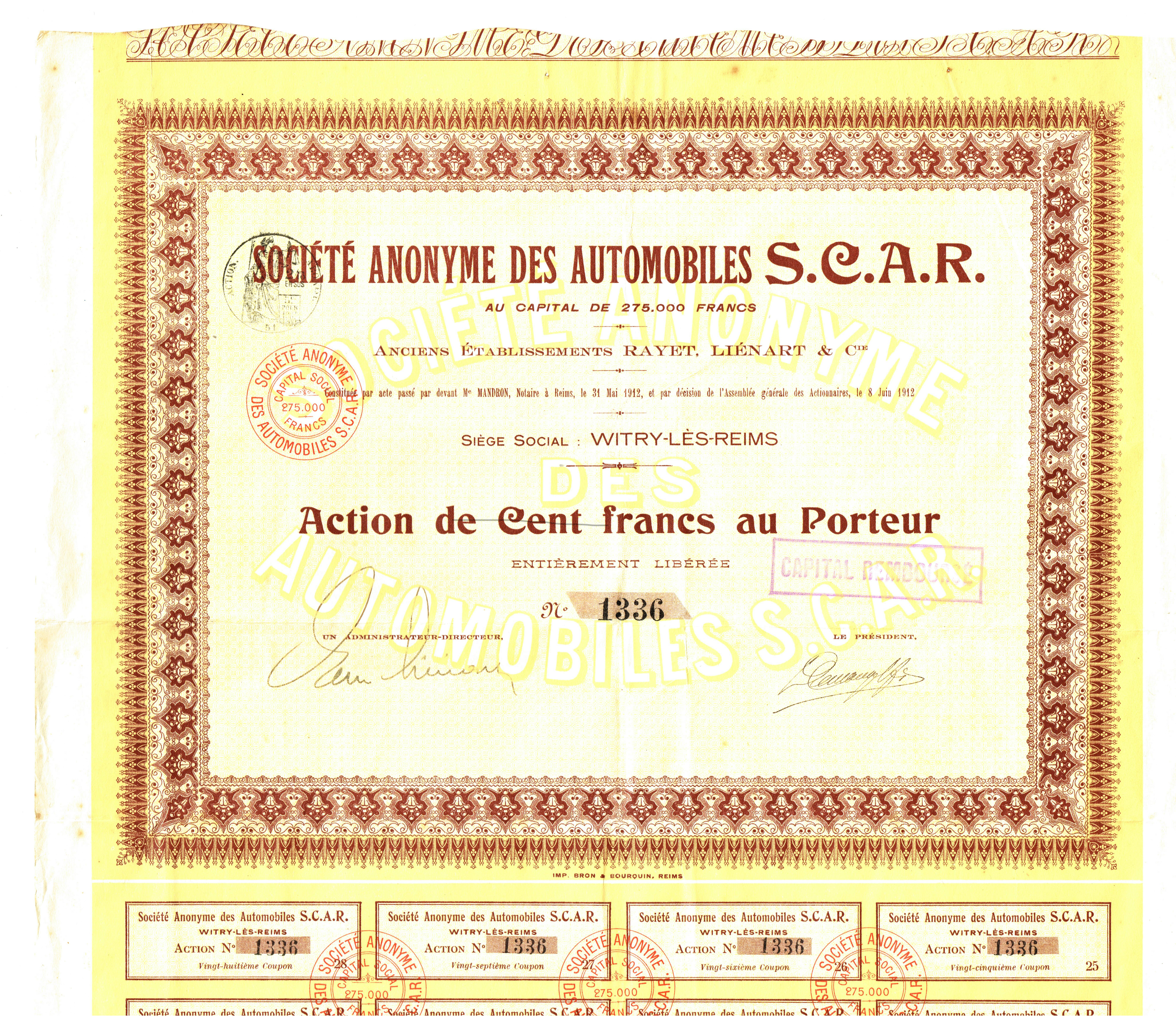 Share of the SA des Automobiles S.C.A.R., issued 8. June 1912